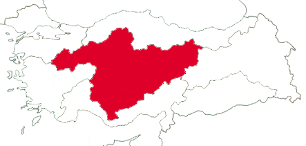 Map of Turkey with highlighted Central Anatolia Region (İç Anadolu Bölgesi)